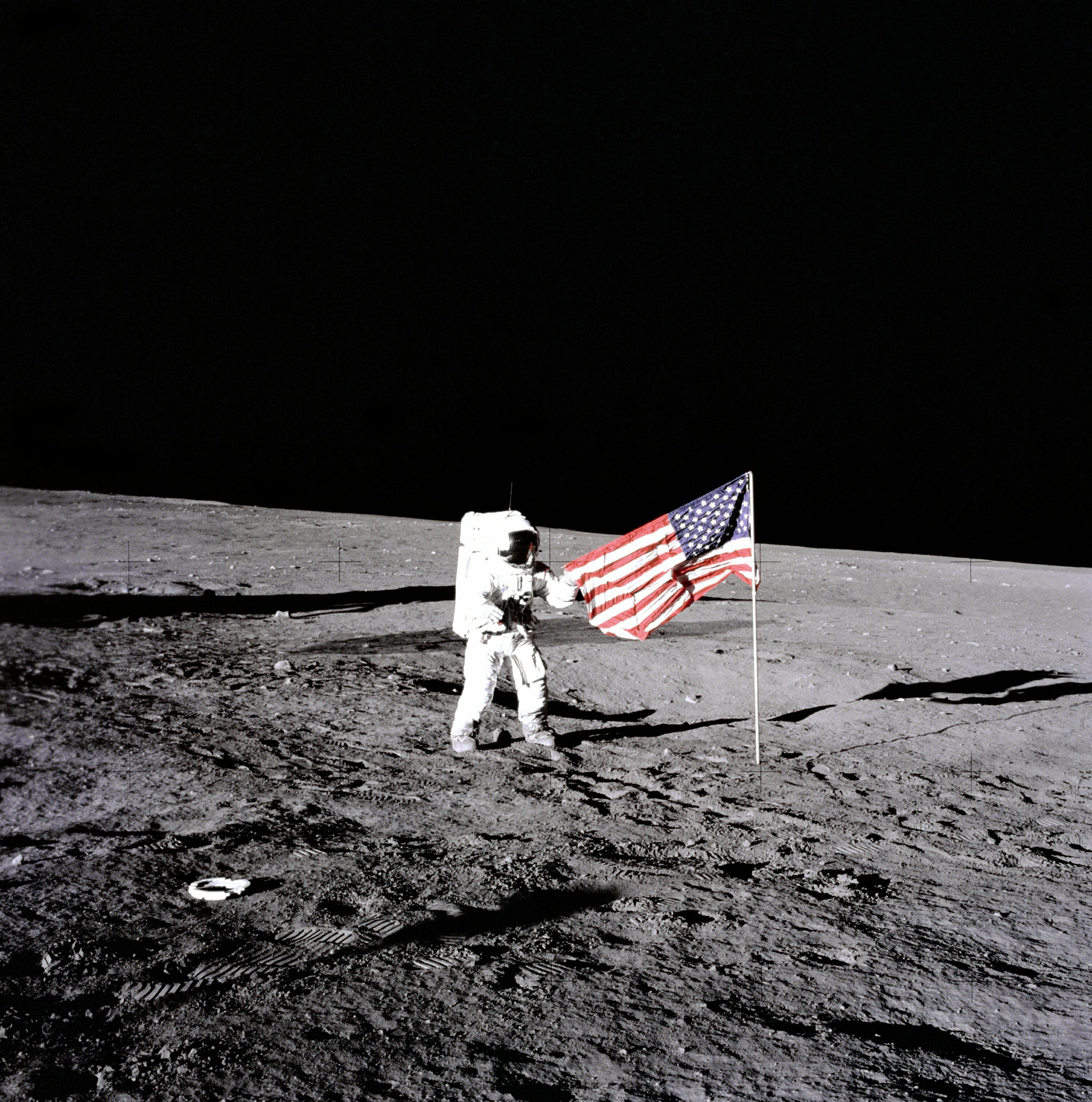 Apollo 12 astronaut Charles "Pete" Conrad stands beside the United States flag after is was unfurled on the lunar surface during the first extravehicular activity (EVA-1), on November 19, 1969. Several footprints made by the crew can be seen in the photograph.